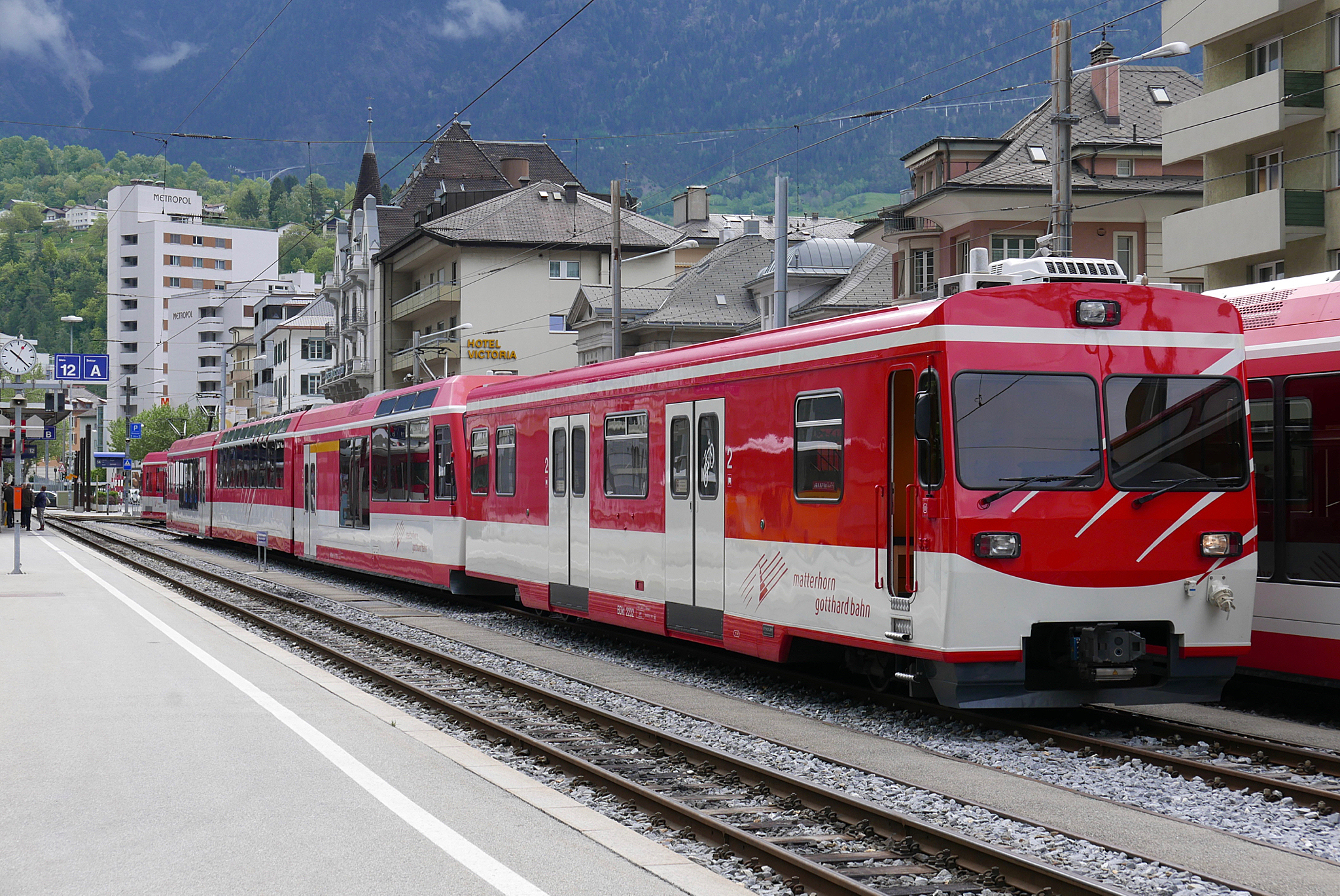 MGB BDkt 2232 at Brig train station.